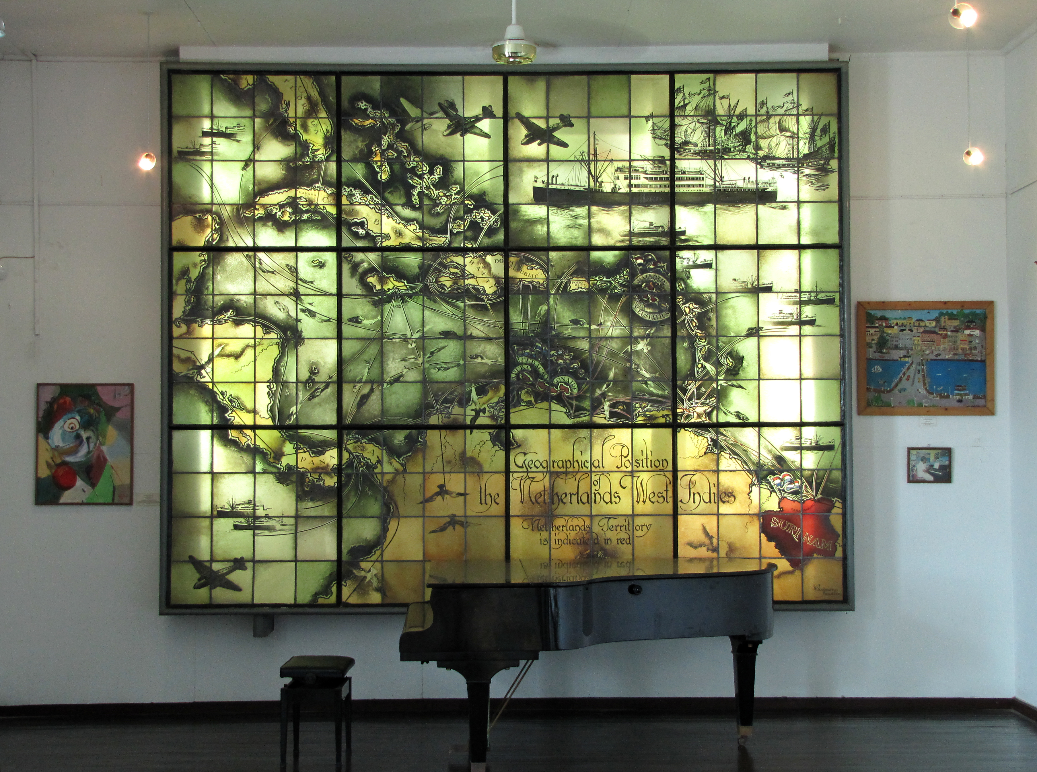 Stained map of the Dutch West Indies in the Curaçao Museum, Dutch Caribbean.